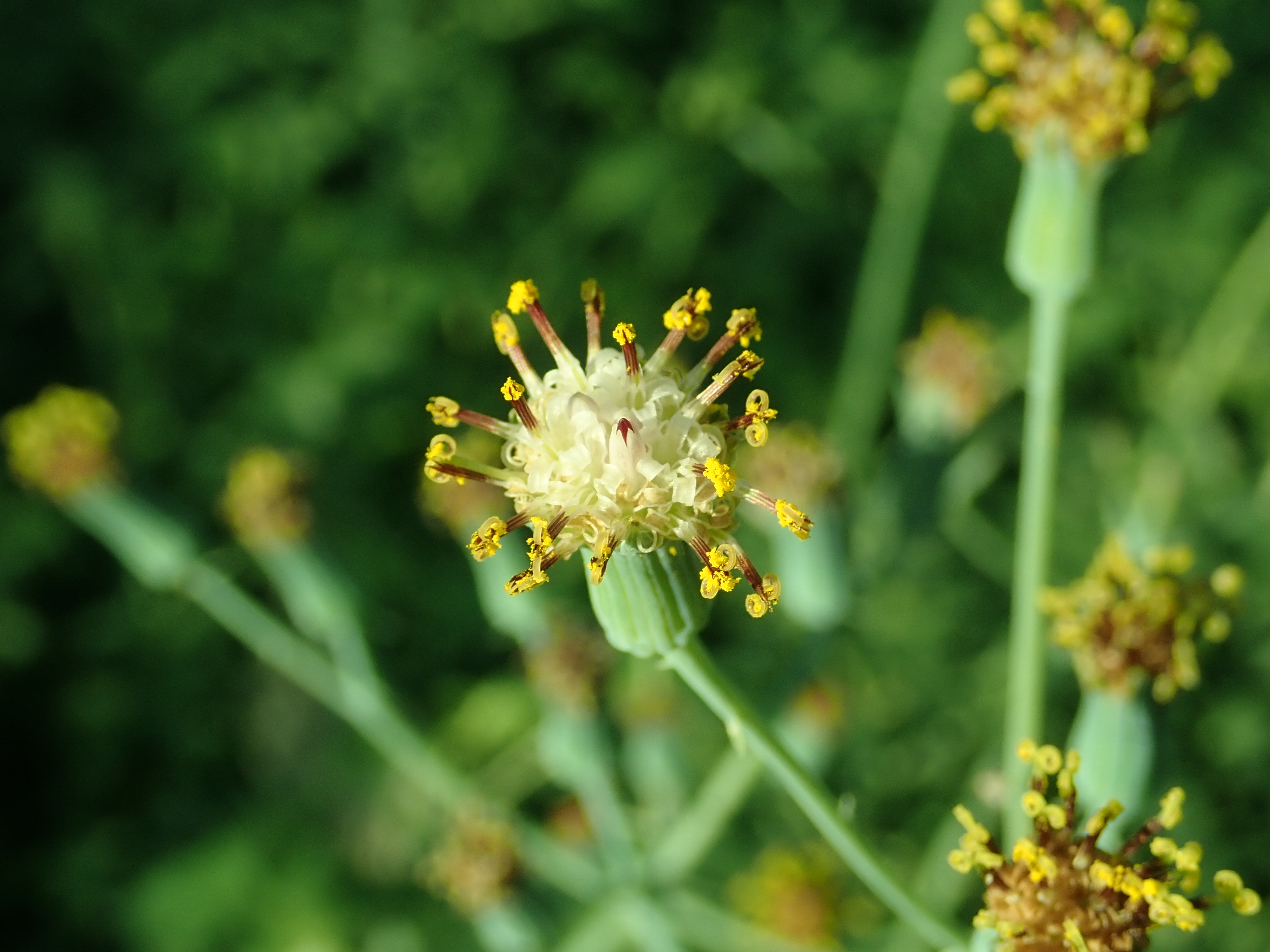 Senecio articulatus, botanical garden in Berlin.